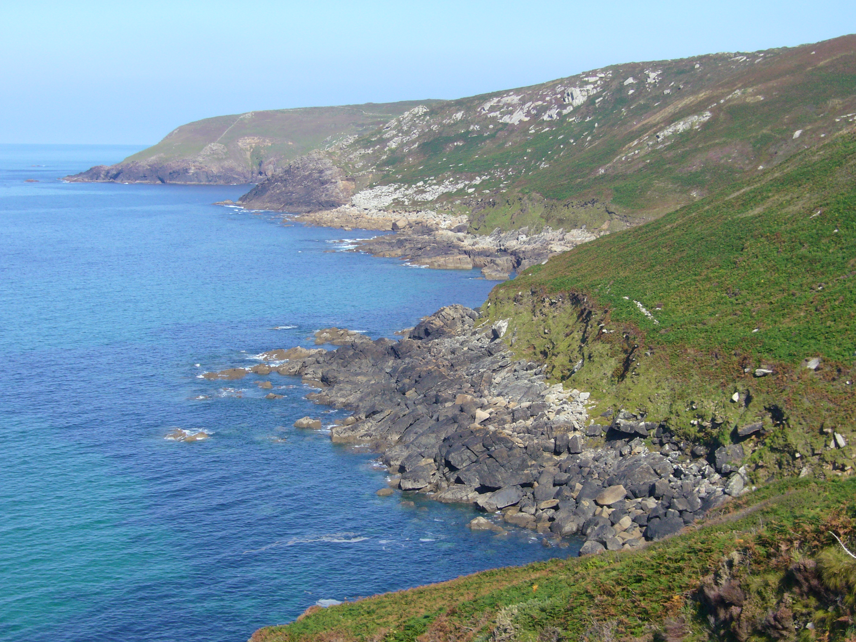 Zennor head. A view of the coast. Photographed in September 2007. Required attribution is: Photo by Tom Oates.